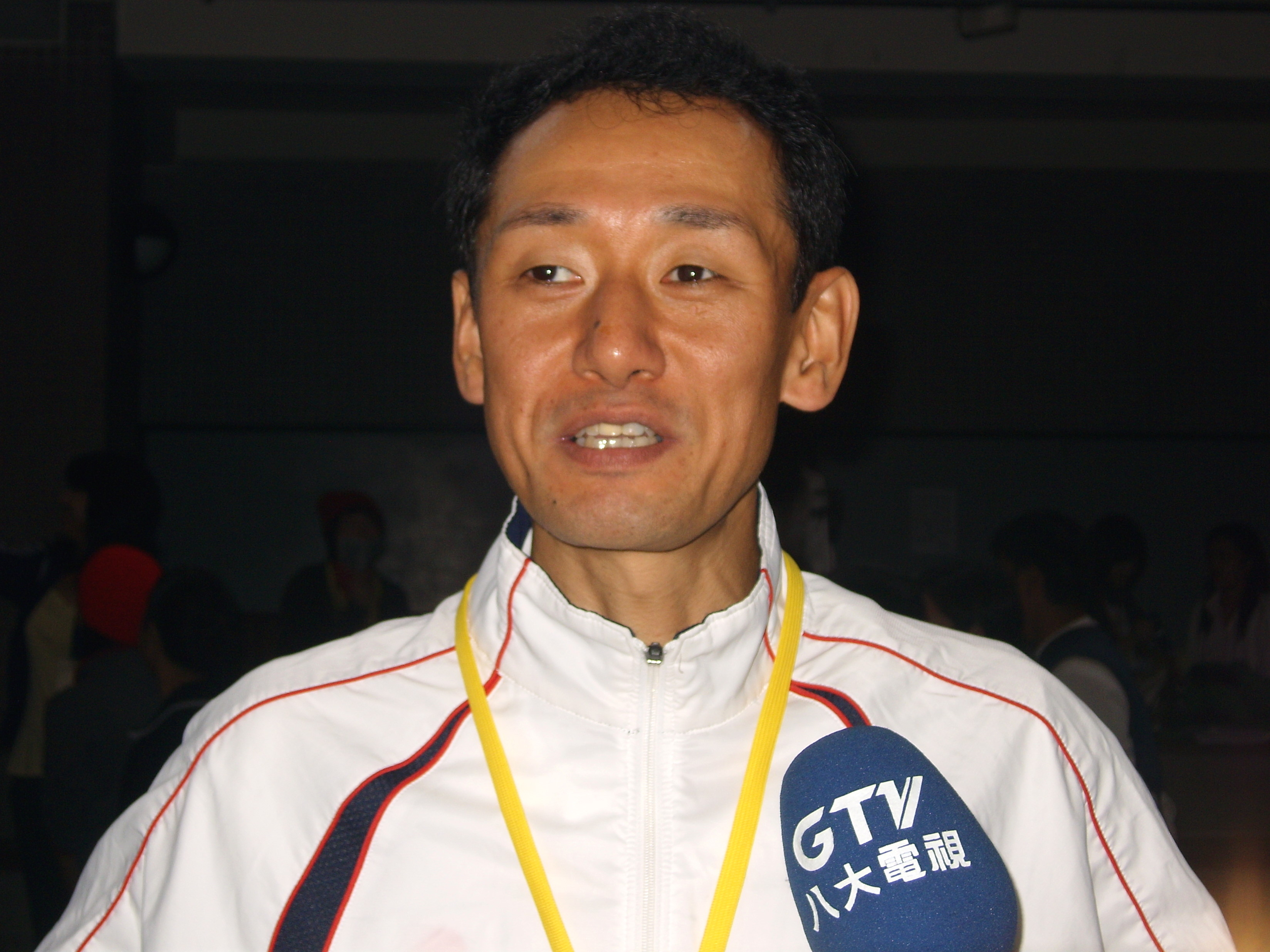 2007 Soochow International 24h Ultra-Marathon - Press Conference: Ryoichi Sekiya from Japan.